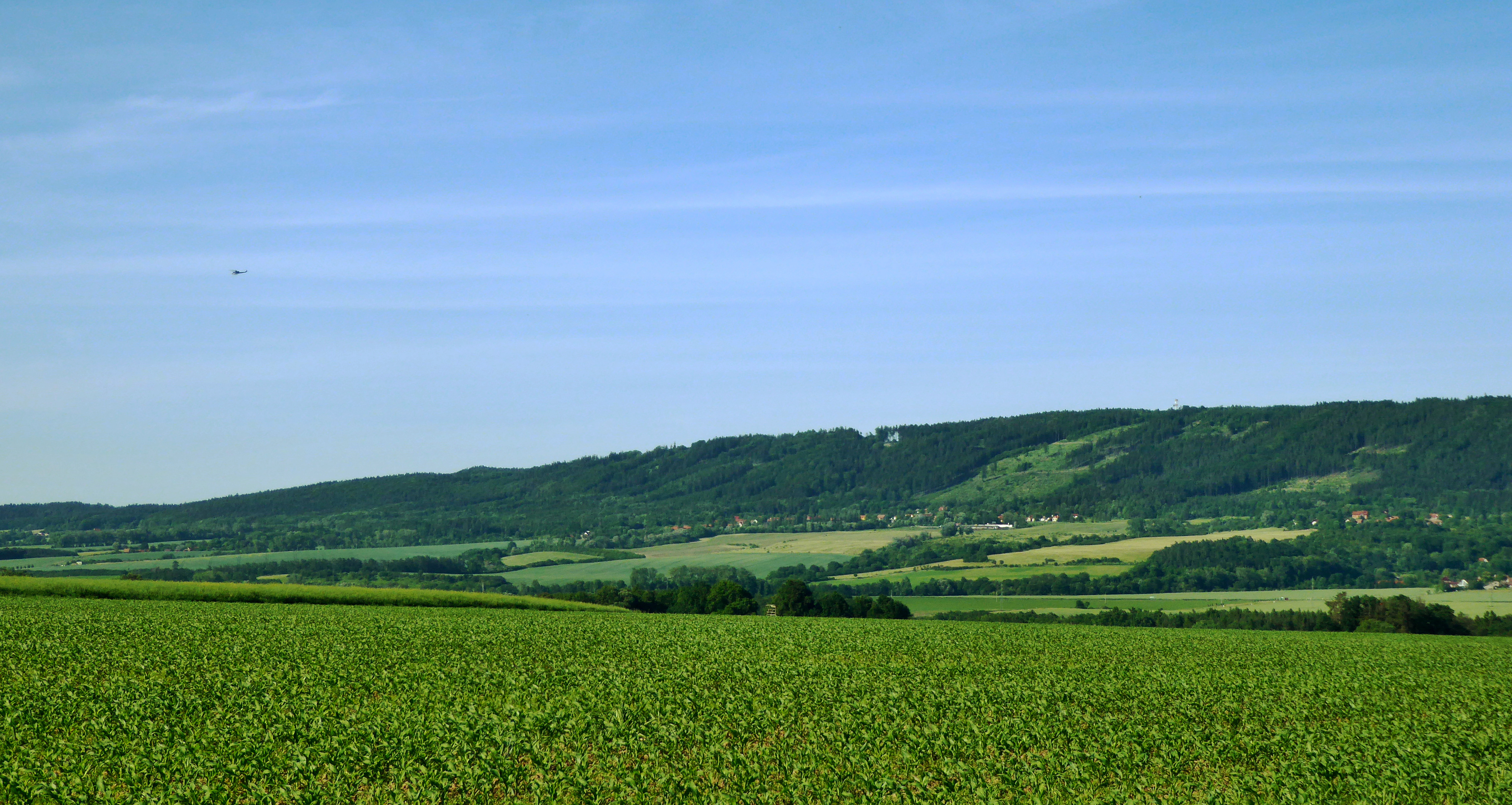 The northwest part of the ridge of the Iron Mountains forms part of geomorphological sub-whole with called "Chvaletické" hills. "Chvaletic" hills rise at altitudes from the river Elbe and reach the highest point on the top of Krkanka on the southwest ridge in the Protected Landscape Area of the Iron Mountain. The highest point of Krkanka (567.8 m above sea level) lies in the forest massif on the horizon, in photo-shoot on the right. Photo location: Czechia, Pardubice Region, villages Kněžice.